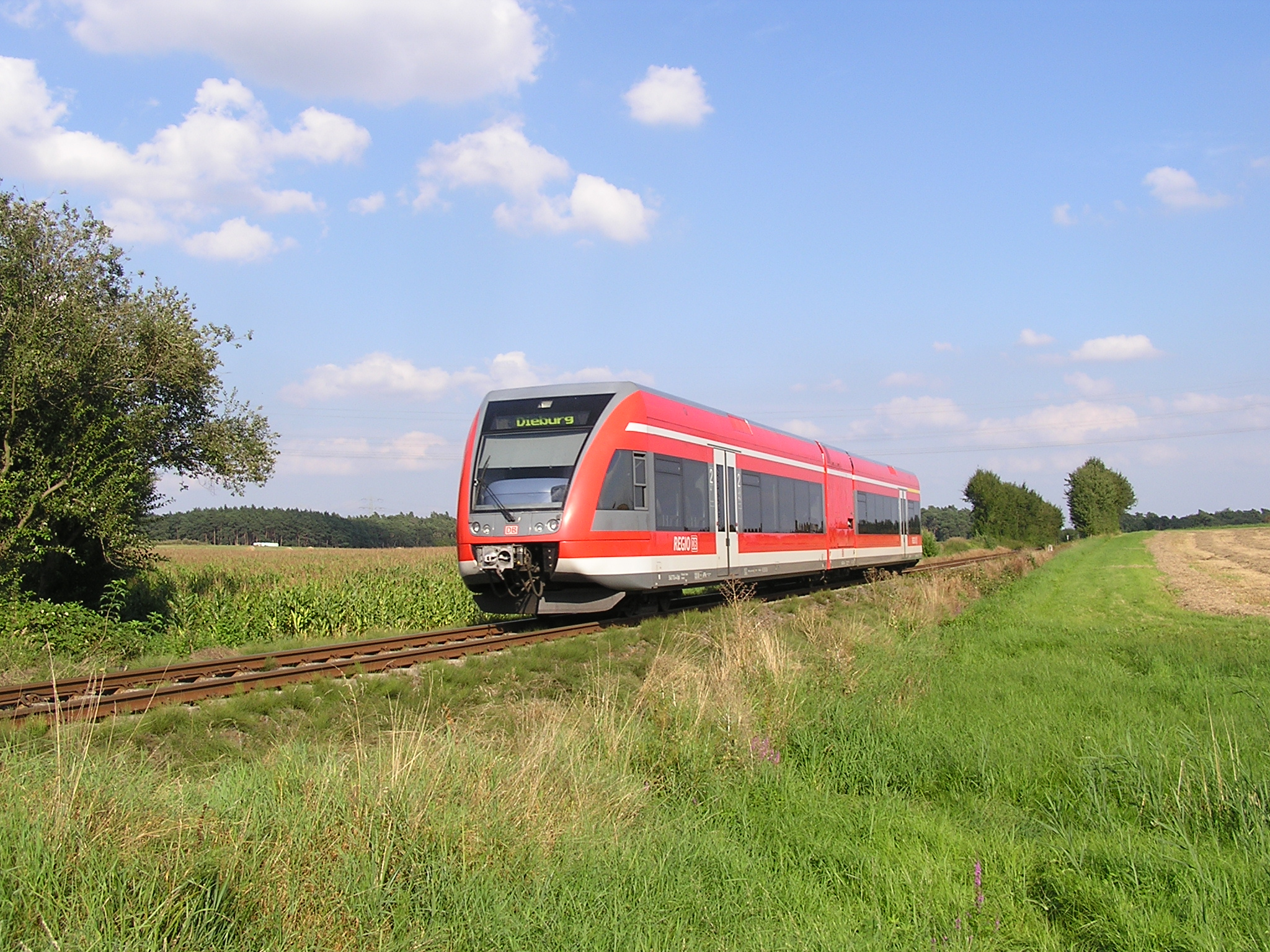 A GTW 2/6 of the DB on the Dreieichbahn near Dreieiech-Offenthal